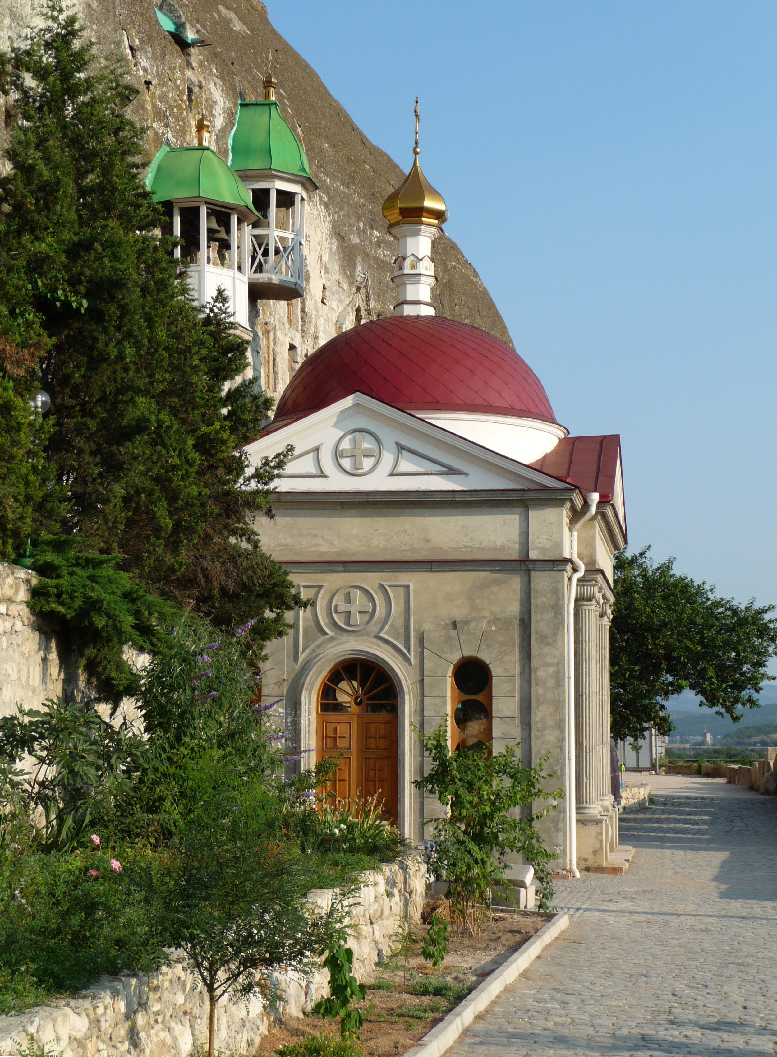 Inkerman Cave Monastery of St. Clement, Crimea